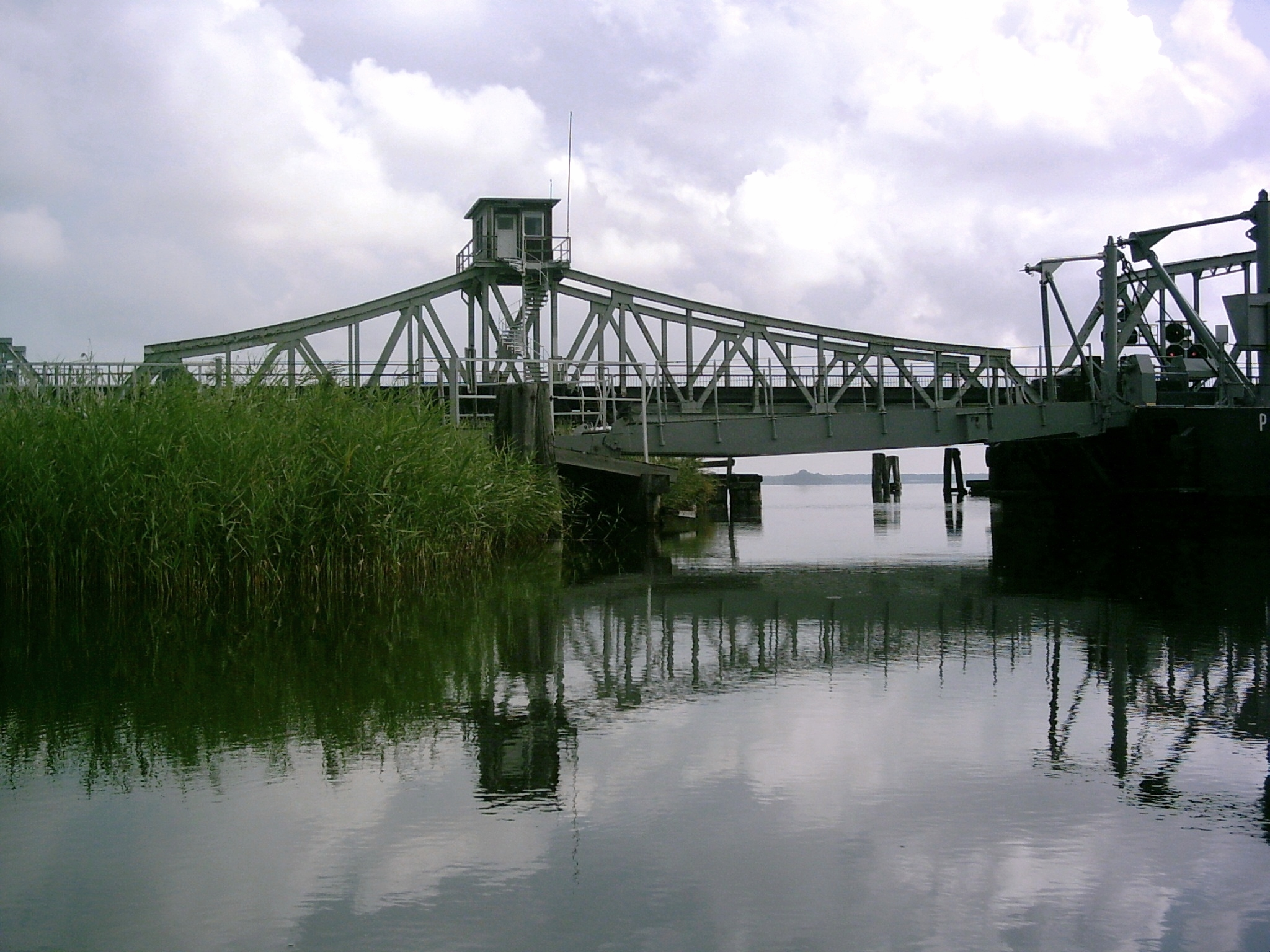 The brigde "Meinigenbrücke" behind Bresewitz and Zingst